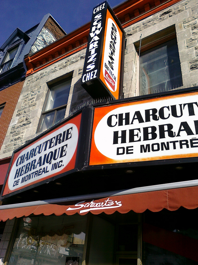 Schwartzs Montreal Hebrew Deli, Montreal, Quebec, Canada.